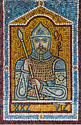 Oleg of Novgorod